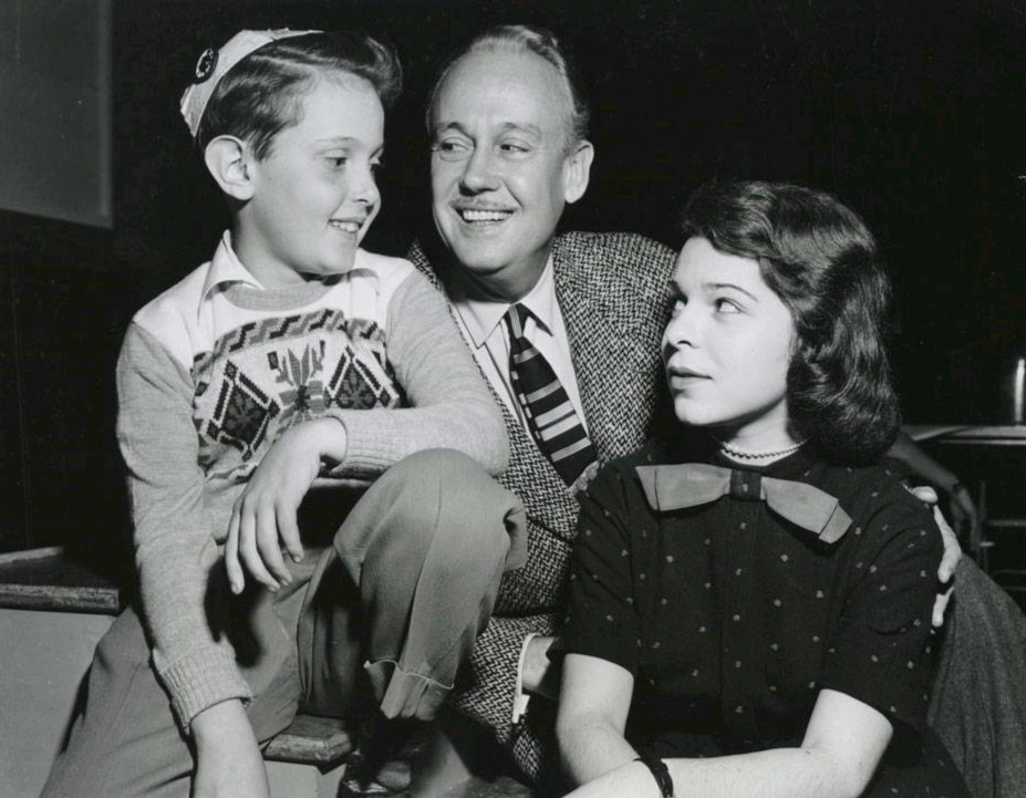 Photo of the radio cast of the program My Son, Jeep. This was a comedy about a widower raising a daughter and a son who couldn't stay out of mischief. Pictured are Bobby Alford (Jeffery "Jeep" Allison), Paul McGrath (Dr. Martin Allison) and Joan Lazer (Peggy Allison). The program was on radio and television on NBC in 1953. From 1955 to 1956, CBS picked up the radio version of the show.